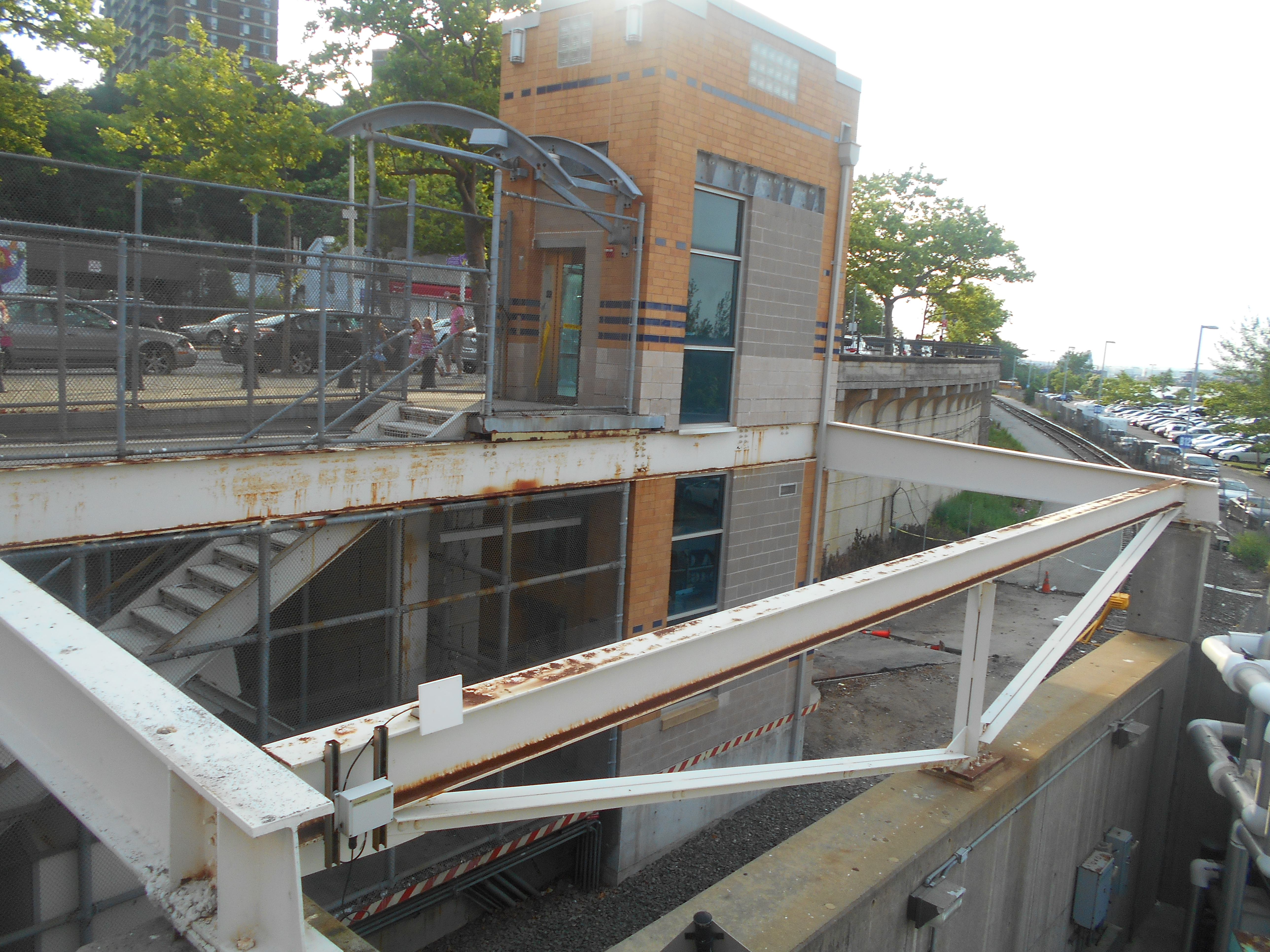 Staten Island, New York